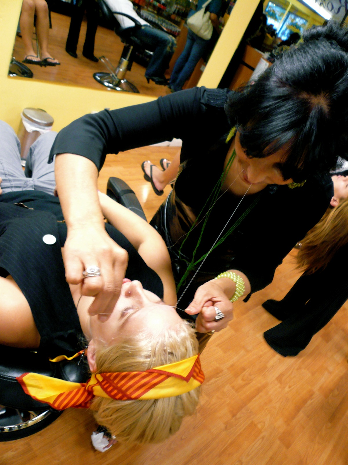 Eyebrow threading